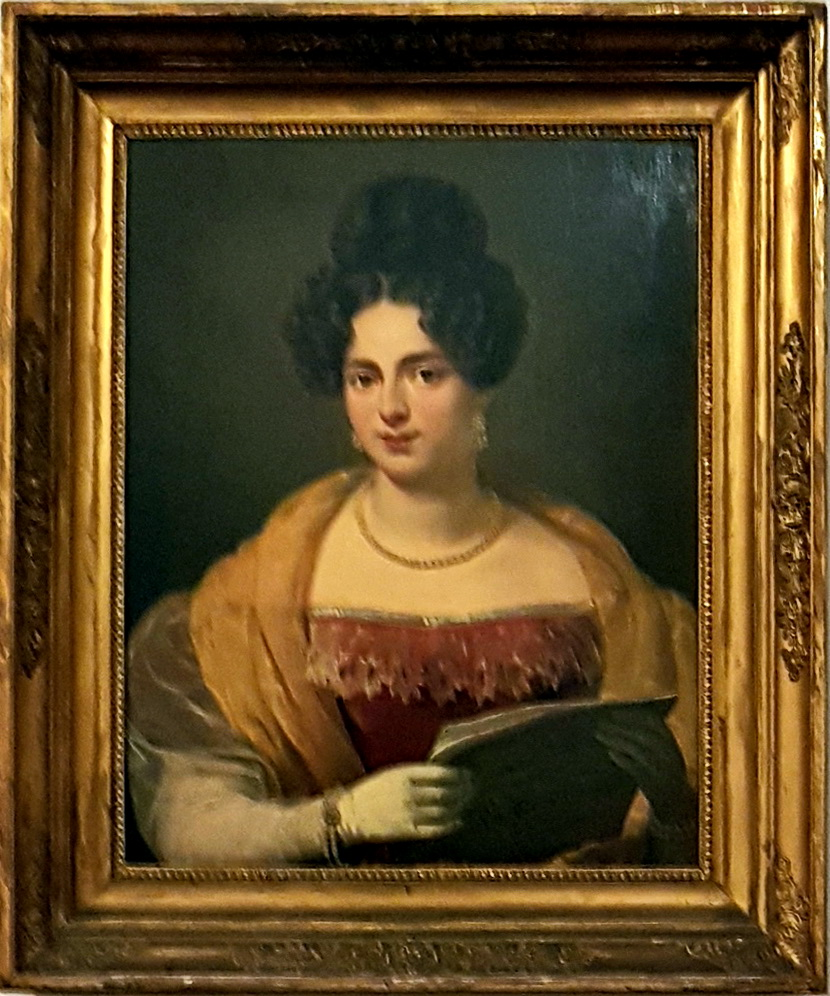 Portrait of Dutch actress Cornelia Naret Koning-Majofski (1807-1847) by an unknown artist in a corridor of Stadsschouwburg, Amsterdam's municipal theatre on Leidseplein, Amsterdam, the Netherlands.